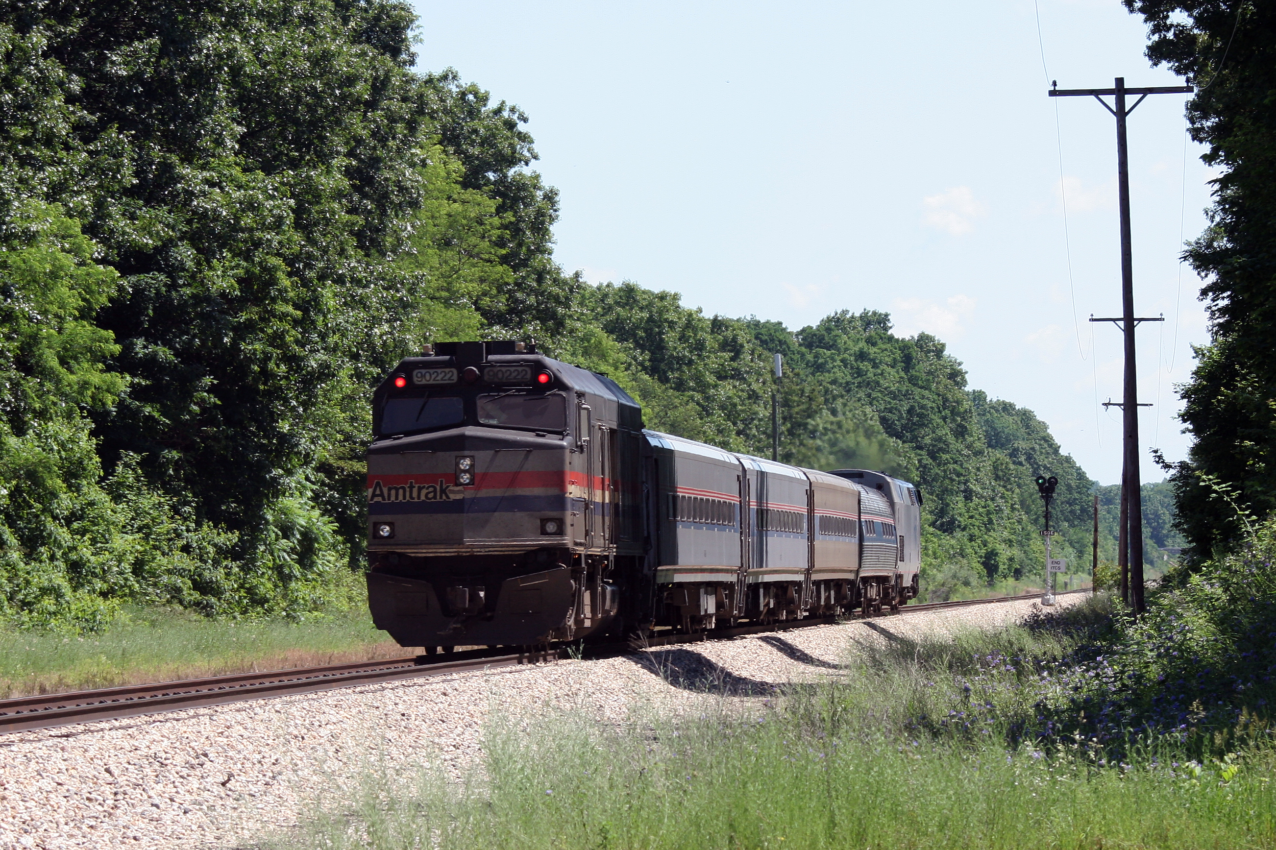 An Amtrak train, probably a Wolverine, at what was then the edge of ITCS territory on the Michigan Line in 2009. Signal 150E is visible at back, right. This train consisted of a non-powered control unit (NPCU), three Horizon coaches, an Amfleet cafe/business class car, and a GE P42DC locomotive.